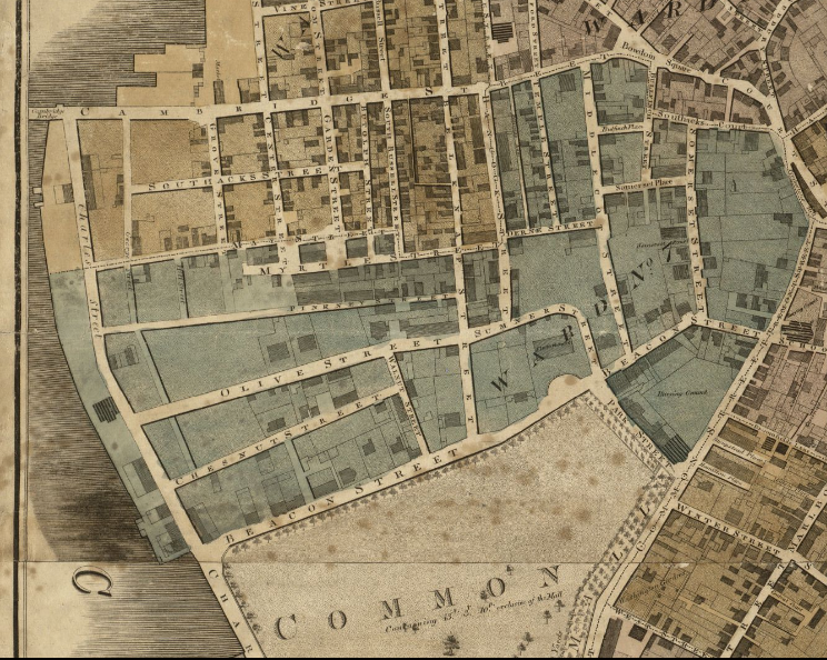 Detail of 1814 map of Boston by John Groves Hale, showing Beacon Hill and vicinity.